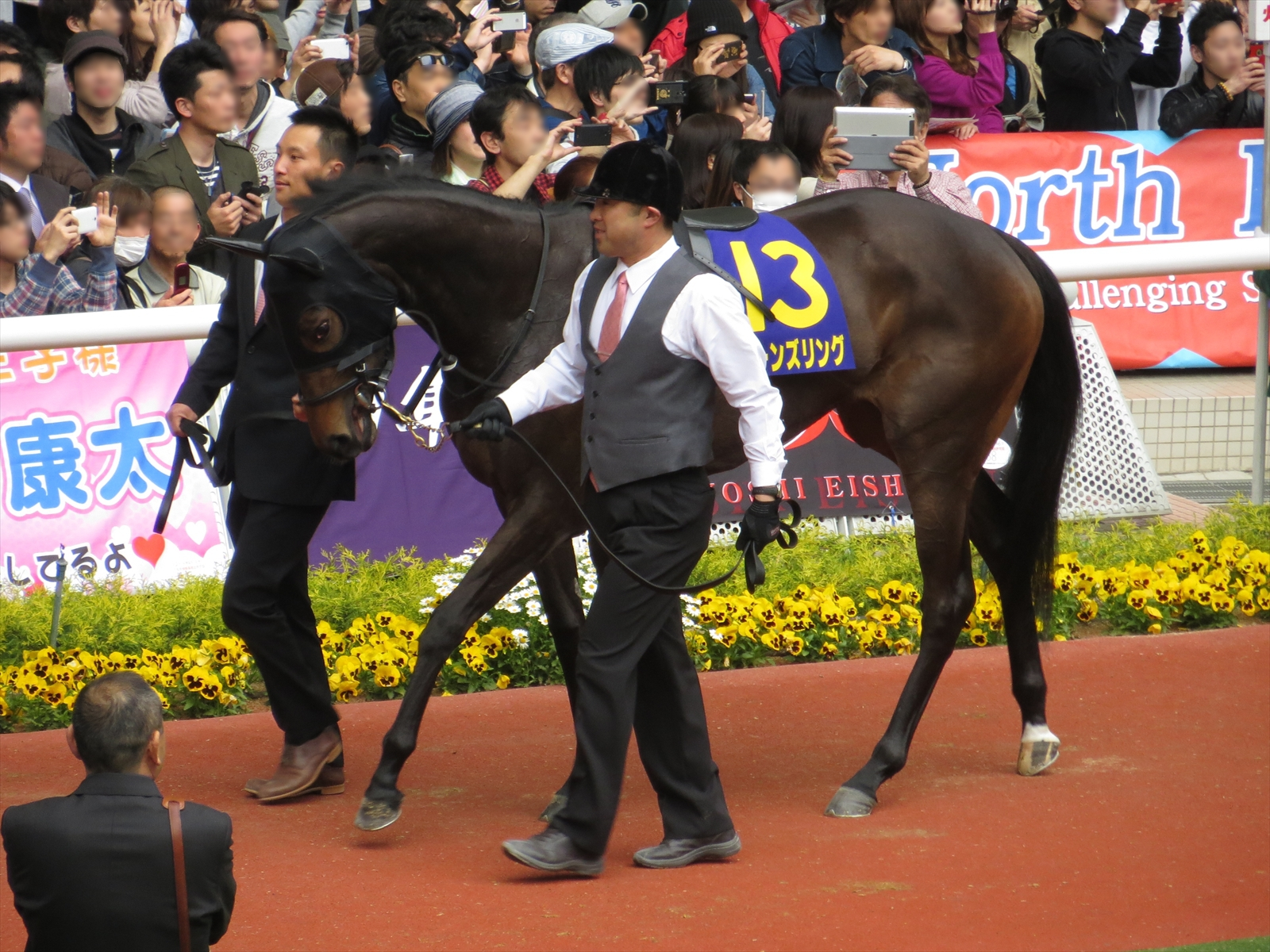 Queens Ring (Racehorse of Japan).